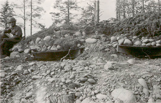 Bunker built by Russians on the Karelian isthmus abd conquered by the Finns.